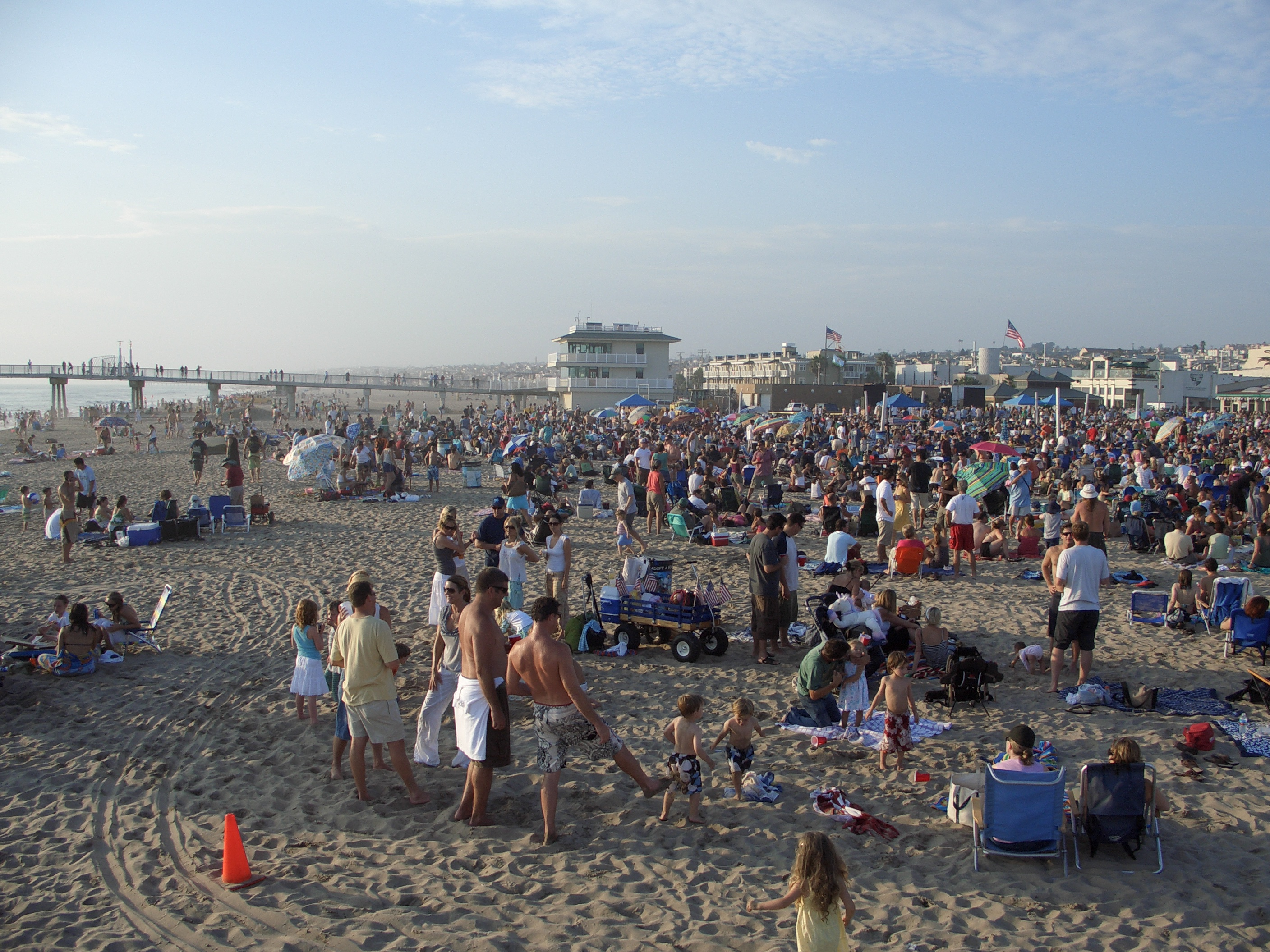 A series of free concerts from bands who perform on the beach while the audience enjoys tailgating and dancing to live music. Typically starts at the end of July. Photograph taken in July of 2006 Photographed and uploaded by user Estrategy